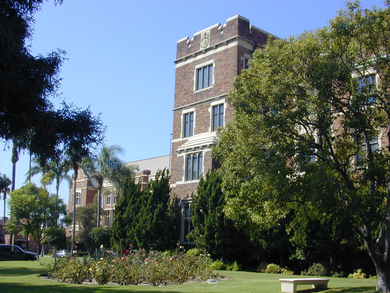 Loyola High School — Catholic boys' high school in the Pico-Union district of Central Los Angeles. 1927 Gothic Revival style facade on Venice Boulevard.